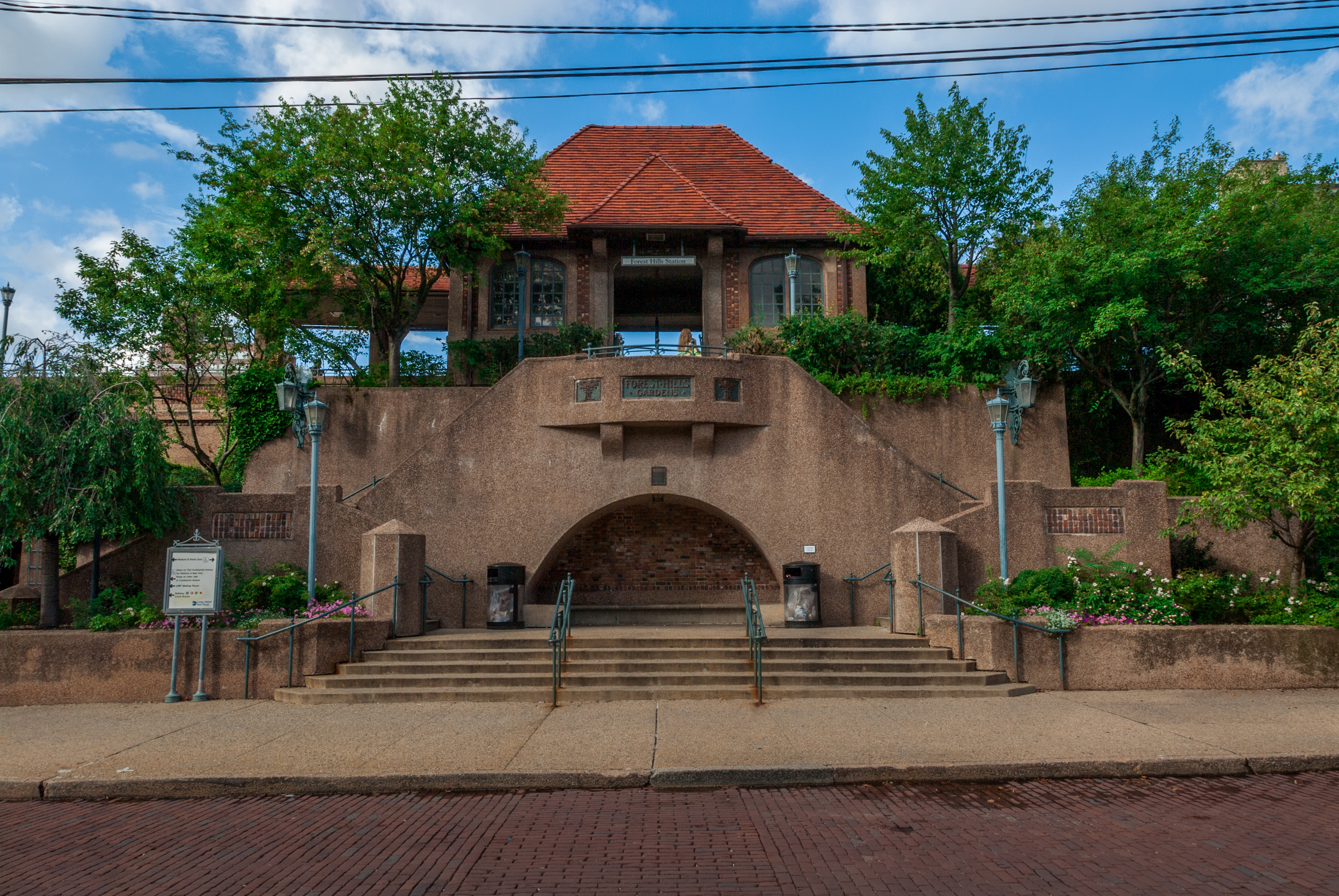 Forest Hills LIRR Station Square